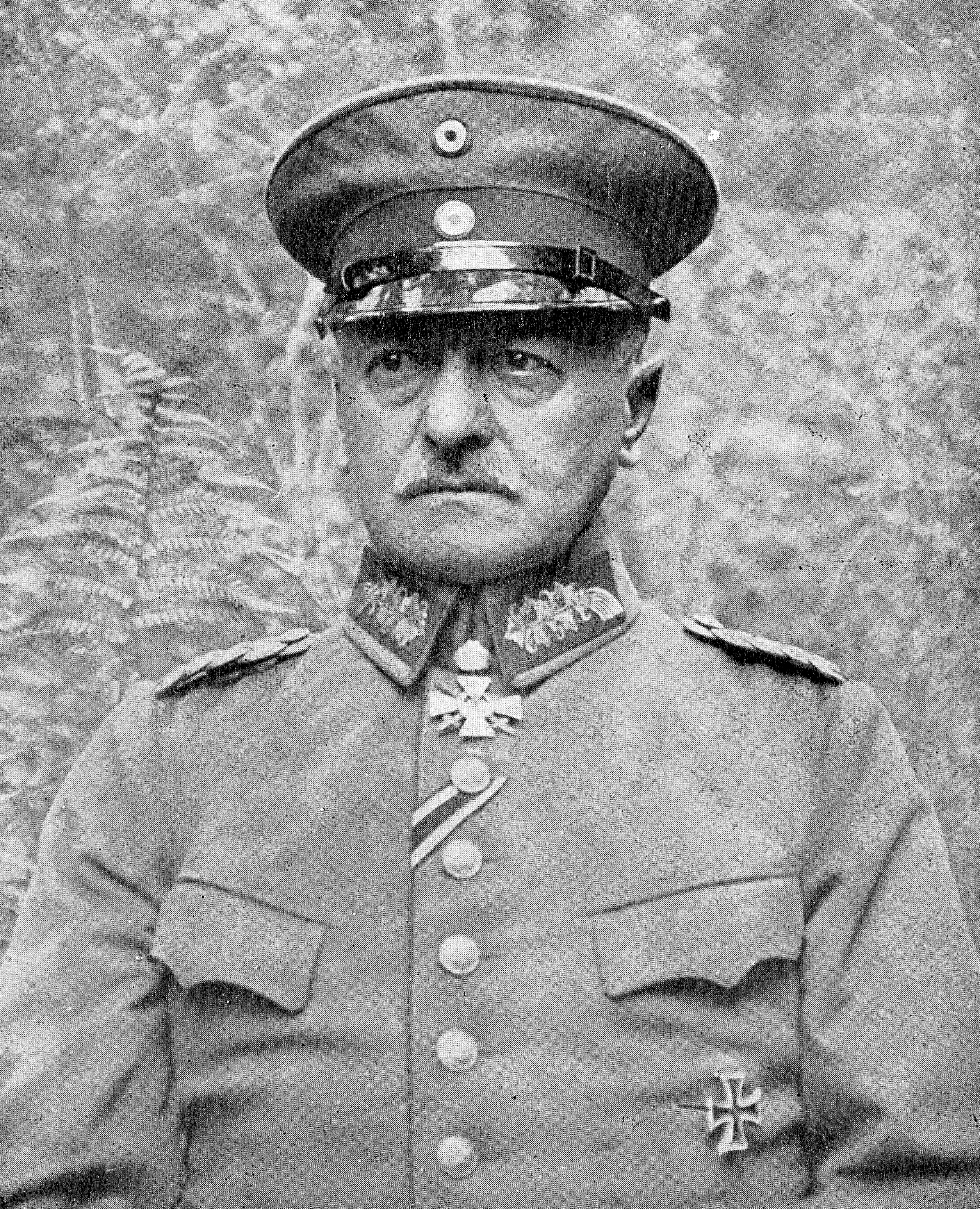 Georg von Engelbrechten (1855–1935)